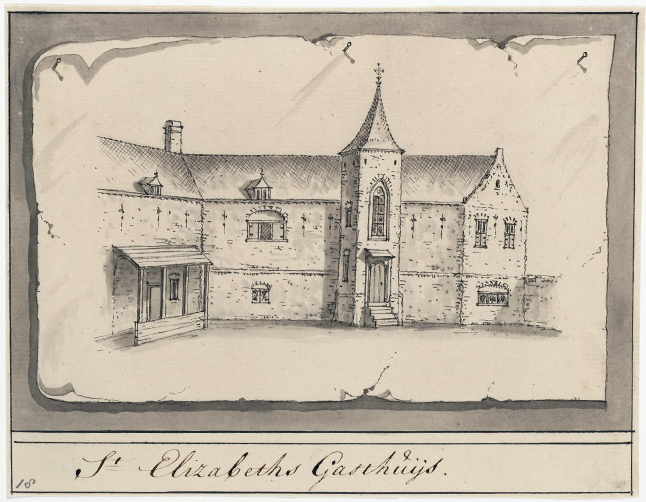 Saint Elisabeth Hospital in Utrecht, the Netherlands. Drawing by Jacobus Stellingwerff (1667-1727). University library Leiden, [PK-T-2902].